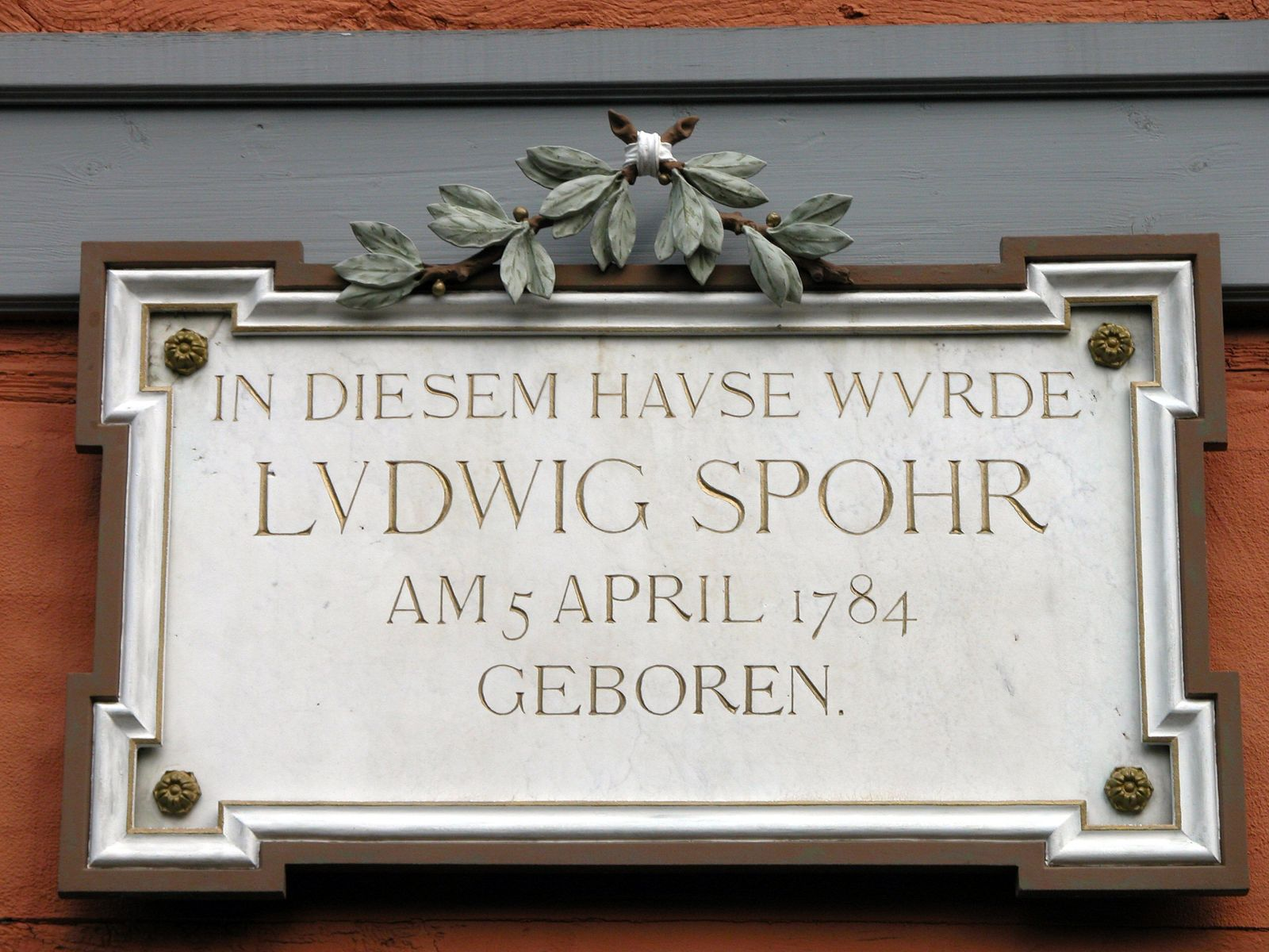 Brunswick, Germany: Detail on the birthplace of Louis Spohr.